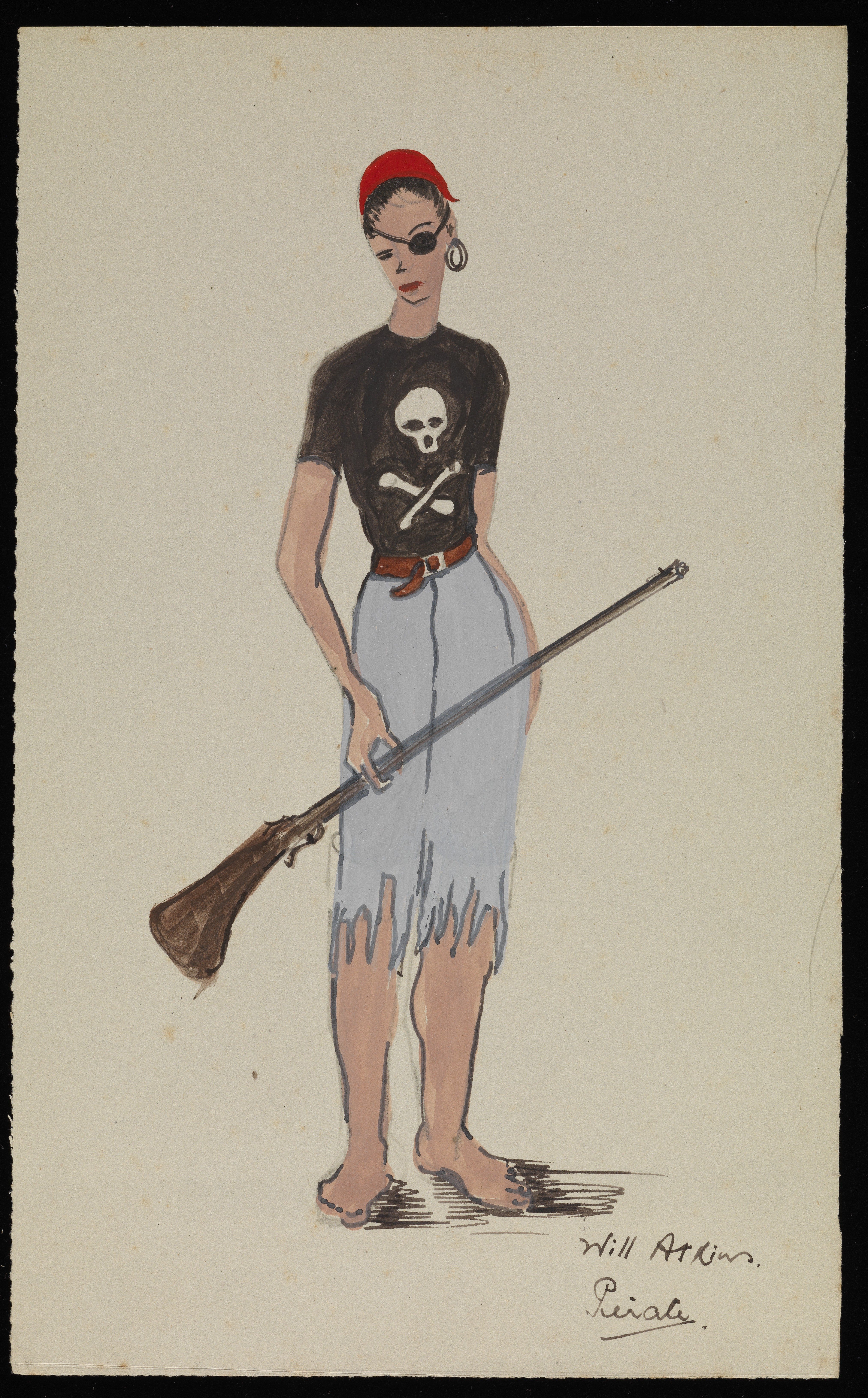 Painting of a pirate. Design of costume for Netherne pantomime. Painted by Edward Adamson (1911-1996), pioneer of Art Therapy in Britain. Christmas pantomimes in British asylums have a rich history and Netherne was no exception. Unfortunately we don't know whether the costumes designed and painted by Adamson have ever been used in a performance. Netherne Hospital was formerly The Surrey County Asylum at Netherne or Netherne Asylum, a psychiatric hospital in Surrey. PP/ADA/E/2. Archives & Manuscripts Keywords: Mental Health; Art Therapy; Design; Costume